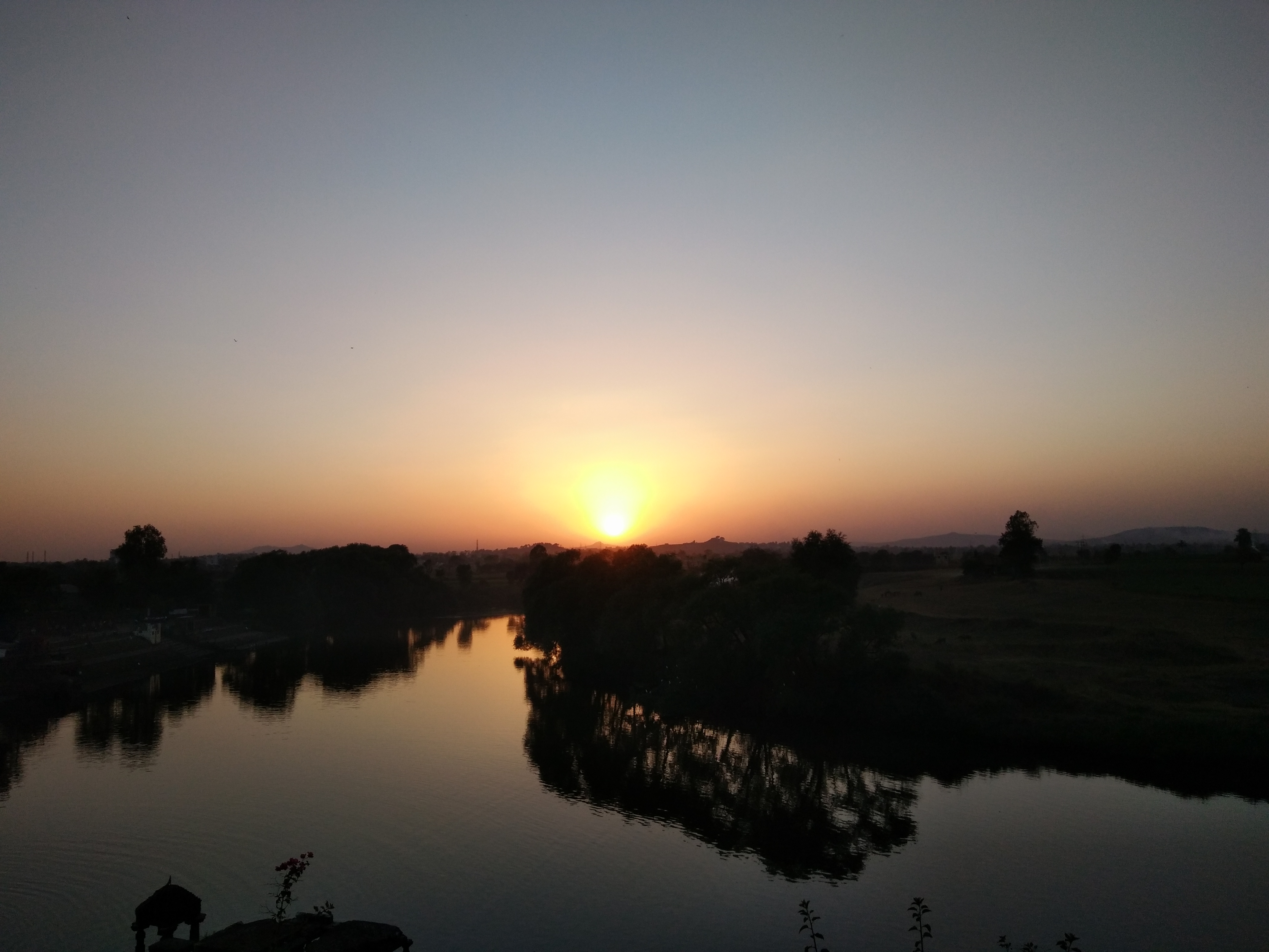 सायंकाळचा वेळीचे पंचगंगा नदीवरील दृश्य.